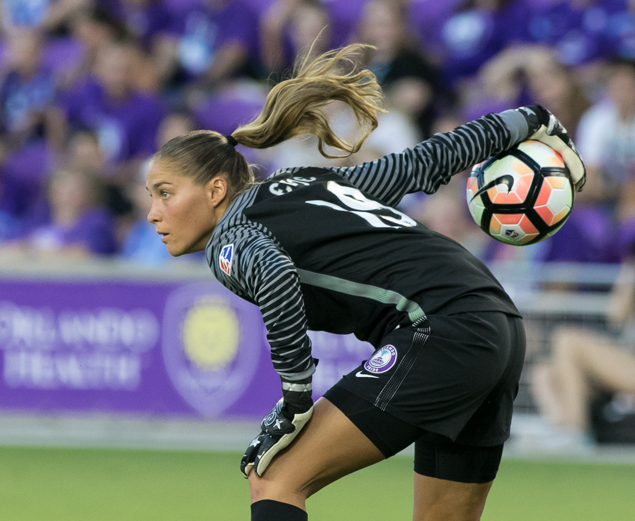 Aubrey Bledsoe playing for the Orlando Pride in 2017.